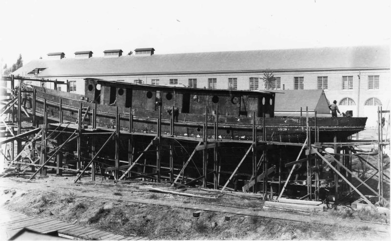 Picture of the harbor tug Pawtucket taken in 1898.